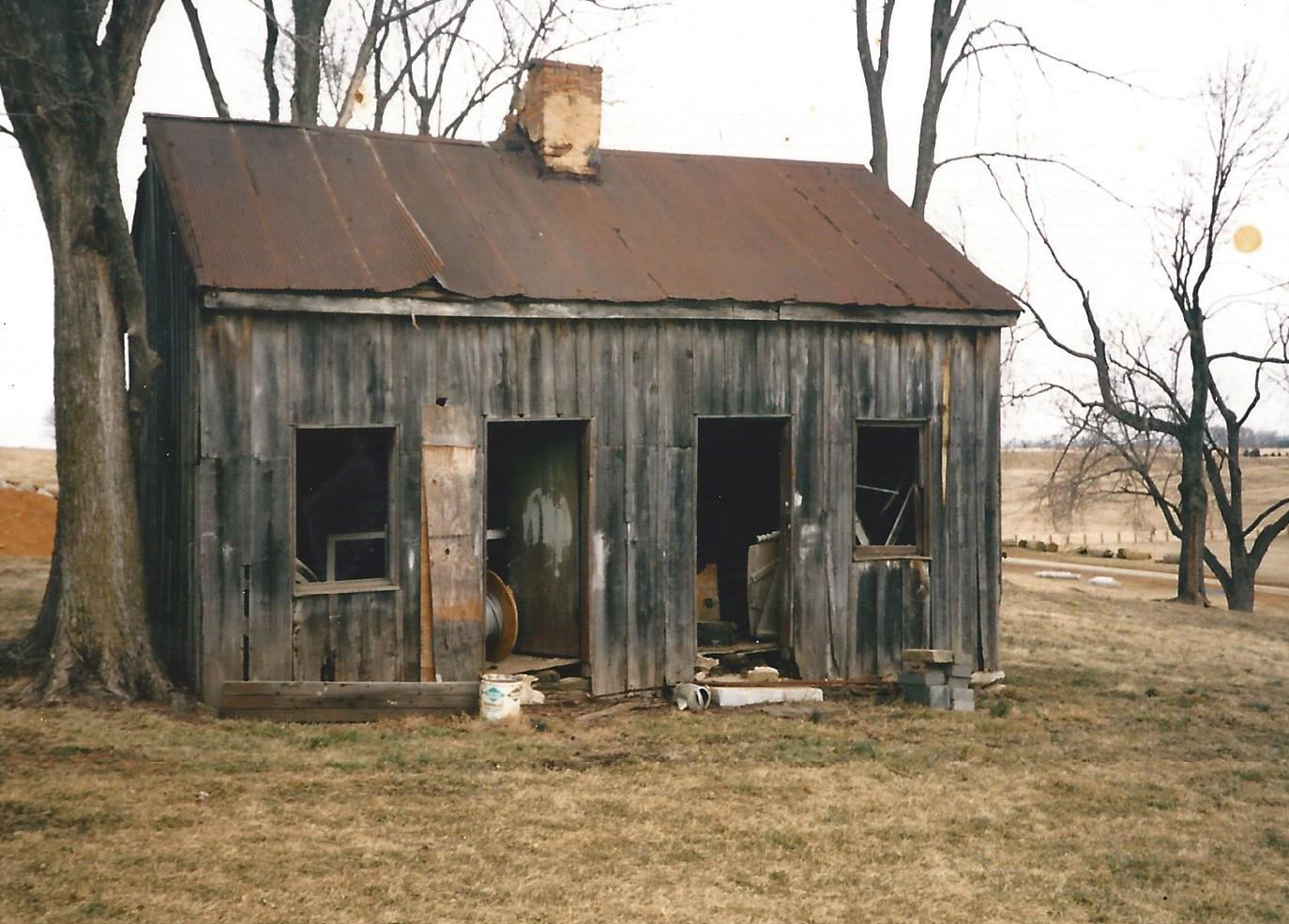 Picture of Slave Quarters at Long Branch Plantation. This building is no longer standing